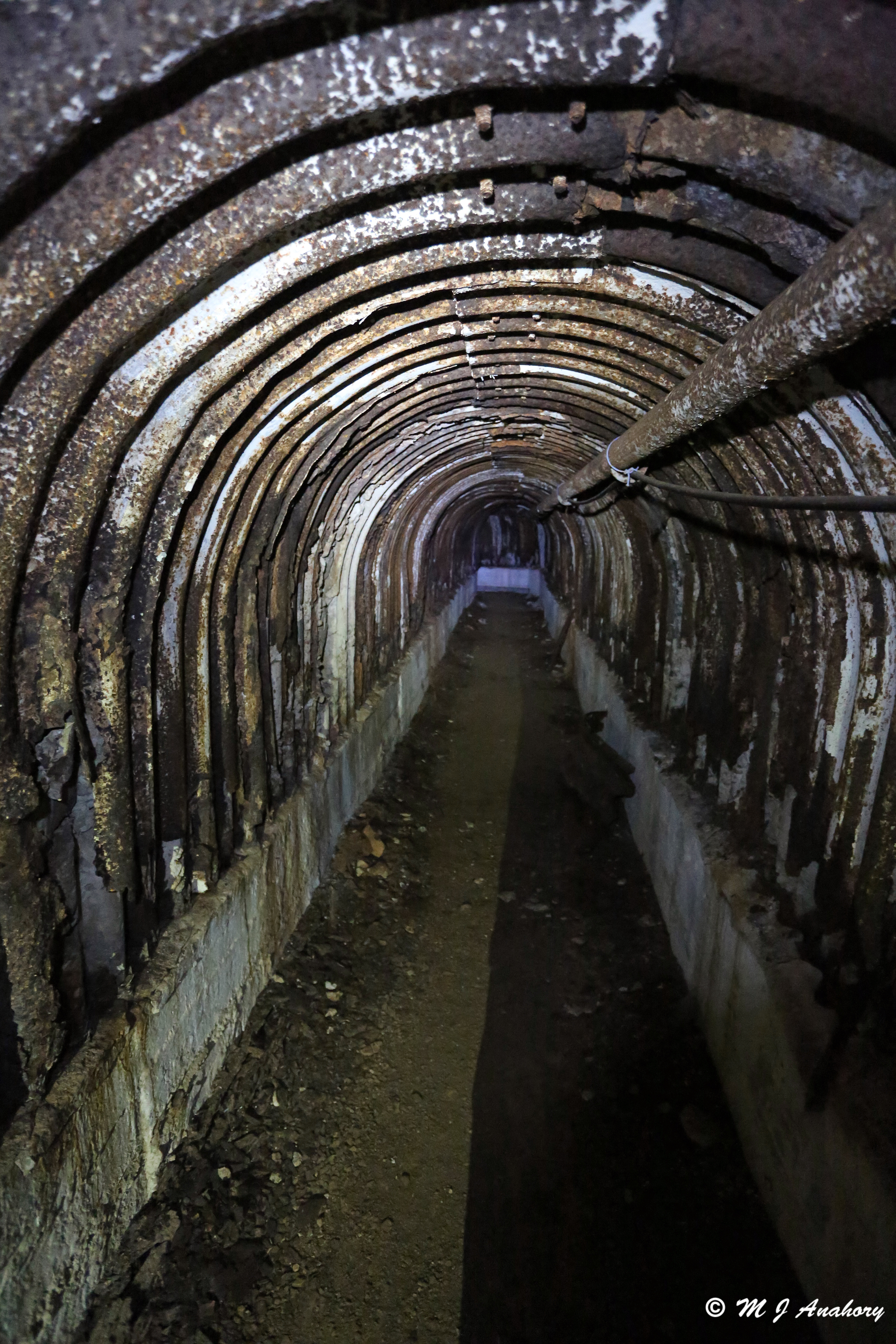 Operation Tracer was a highly classified British military operation based in Gibraltar during the course of WW II. In 1941, Royal Naval Intelligence decided to establish a covert observation post at Gibraltar that would remain operational even if Gibraltar was captured by the enemy in the event of the Germans activating Operation Felix. Operation Felix was the codename for the plans by the German High Command to capture Gibraltar by an attack from neighboring Spain. It was intended that, from the secret observation post, the movements of enemy vessels in the Straits and Bay of Gibraltar would be reported back to the UK. The decision was made to construct the facility using the existing tunnel system for Lord Airey's Shelter an underground shelter near Lord Airey's Battery. (For more on Lord Airey’s Battery see the set on this Battery within this Photostream). The cave complex comprised living quarters, transmission room, sanitation and dual observation posts. The complex included an observation slit overlooking the Bay of Gibraltar (2 cm wide) and a larger opening over the Mediterranean Sea. Royal Naval Intelligence selected six men for the operation and it was understood that they would remain sealed within the cave complex for about a year or longer with provisions for a seven-year stay assembled in the complex. Operation Tracer was never activated once the risk of Gibraltar falling into enemy hands became increasingly low. More information on Operation Tracer can be found in